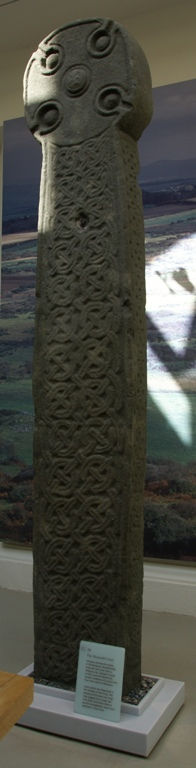 Whithorn Priory, Whithorn, Dumfries and Galloway, Scotland - Monreith Cross